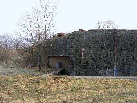 Casemate d'Auenheim Nord, the frontage and crenels